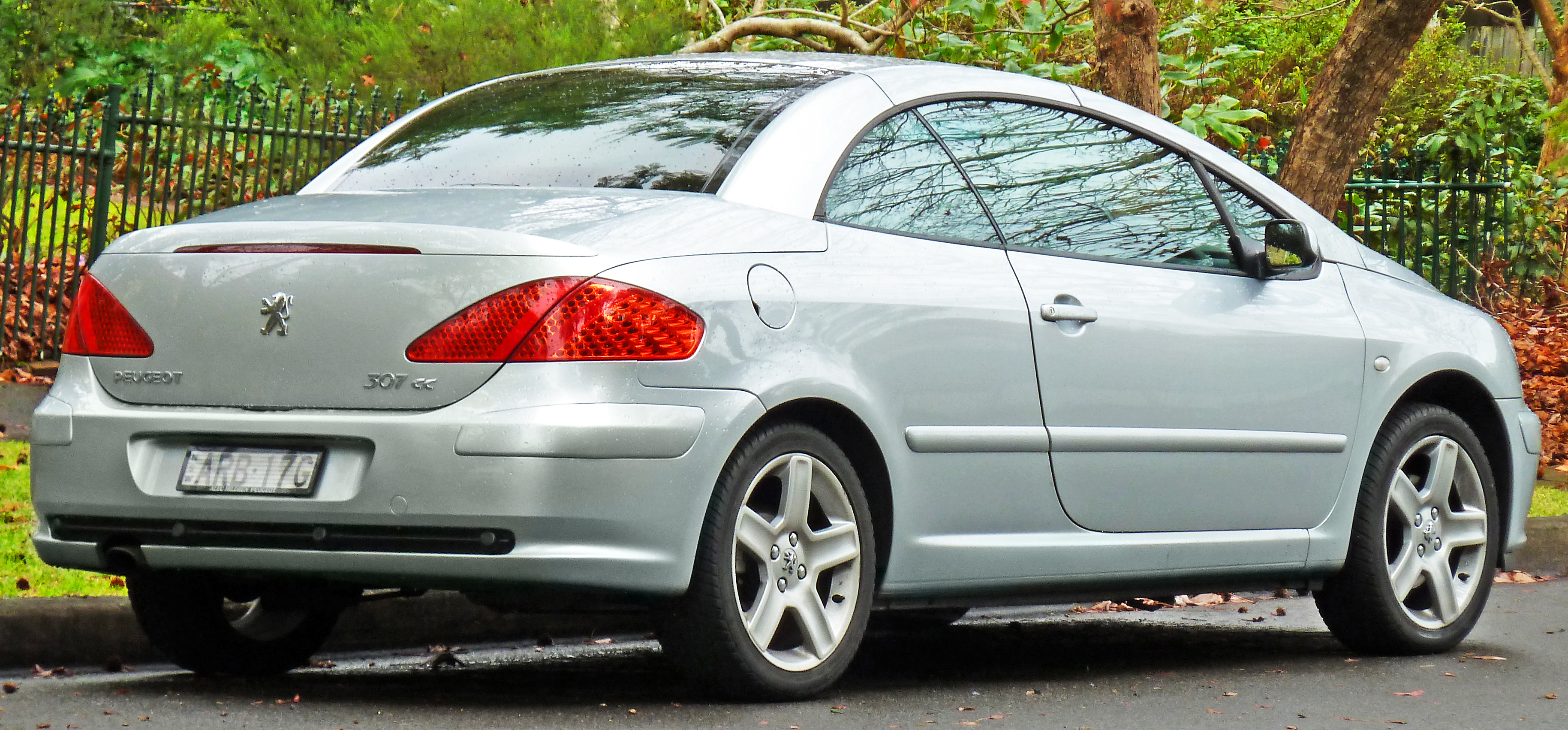 2004 Peugeot 307 (T5 MY03) CC Sport convertible. Photographed in Lindfield, New South Wales, Australia.